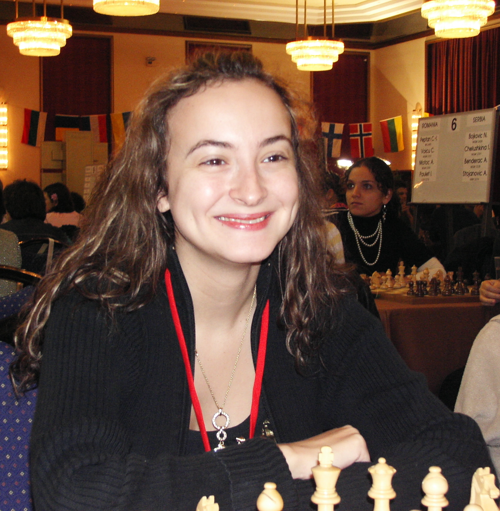 GM Antoaneta Stefanova (BUL), EuroChess Iraklion 2007